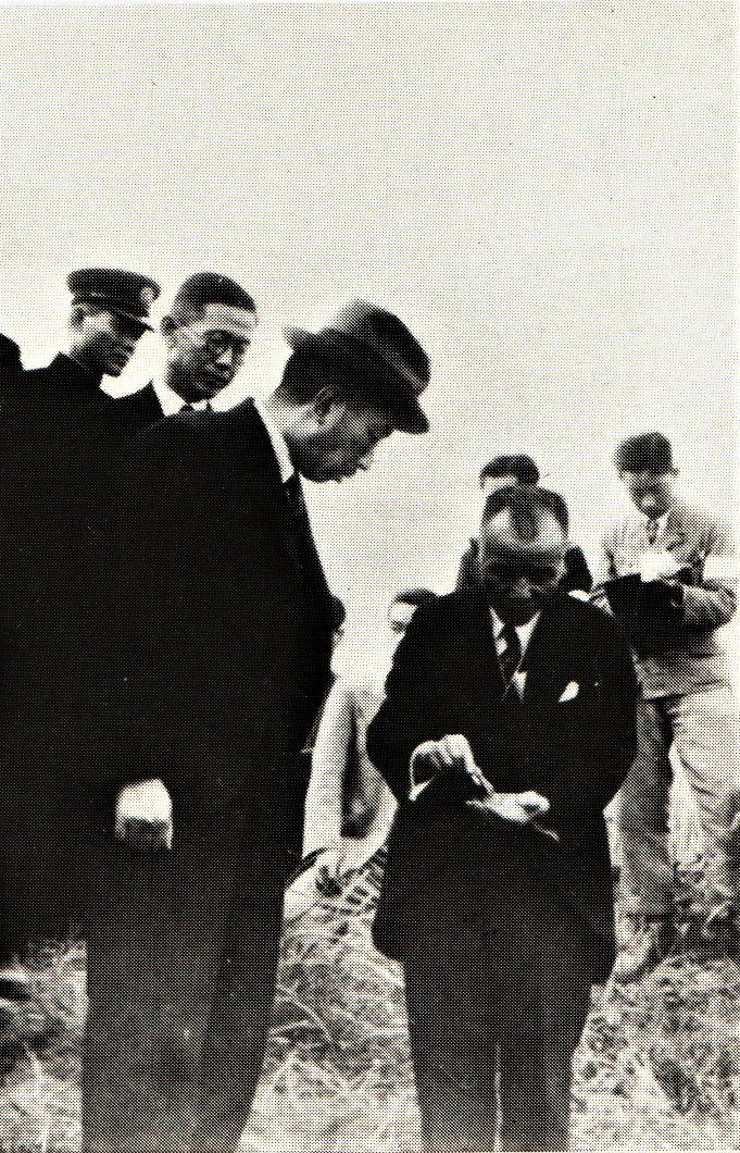 October 1947 visit endemic schistosomiasis by Emperor Hirohito of Japan, in Kofu